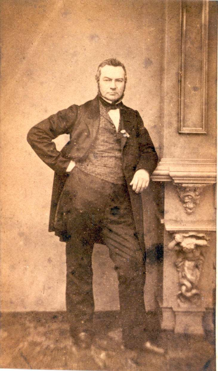 Jan Anne Lycklama à Nijeholt (1809-1891)